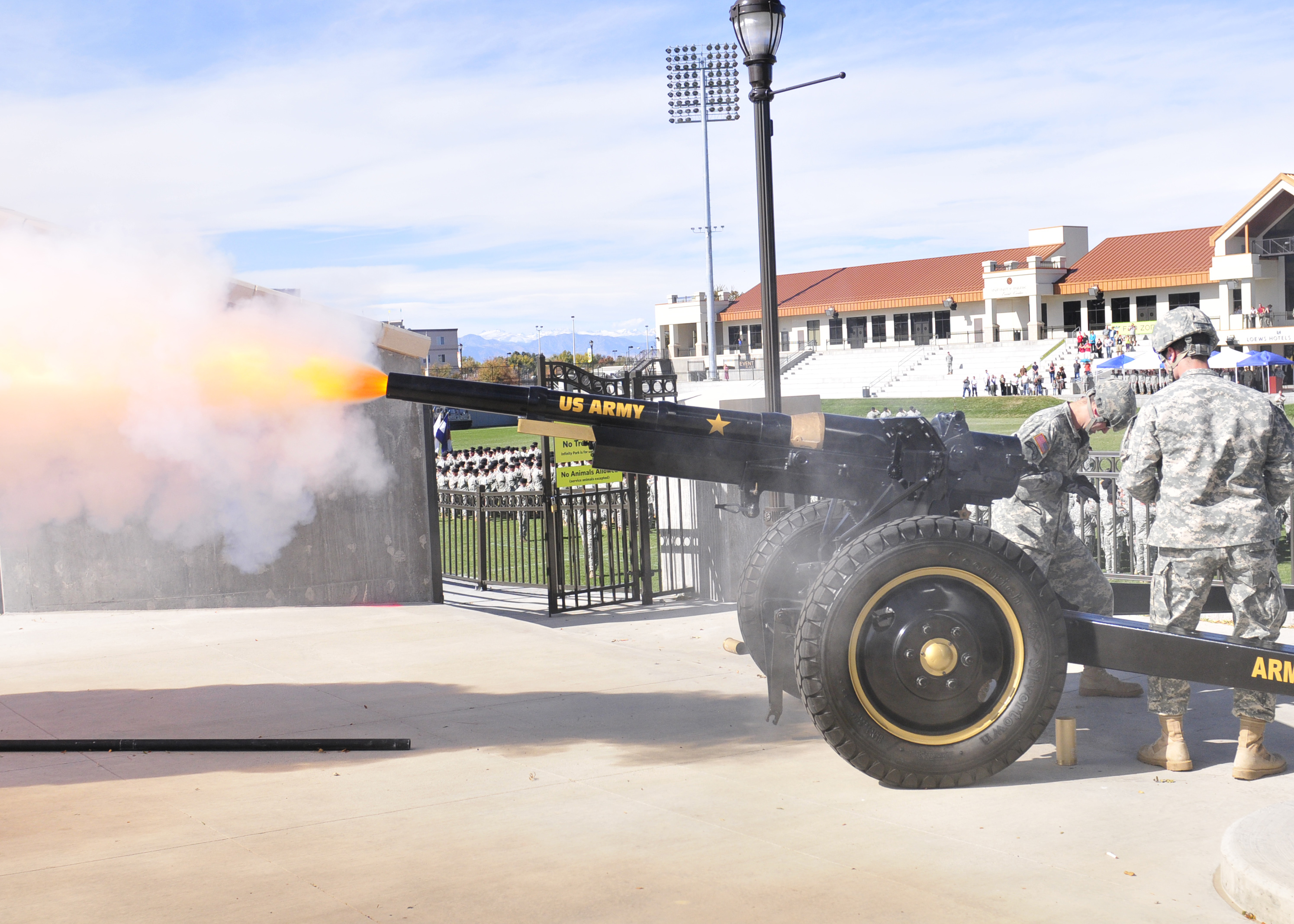 Soldiers from the 169th Fires Brigade, Colorado Army National Guard, fire a cannon during the Colorado Army National Guard change of command ceremony at Infiniti Park Stadium in Glendale, Colo.